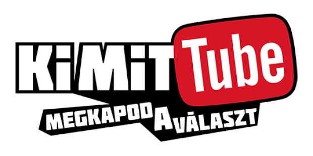 Logo of the Hungarian YouTube-based talent show named |.